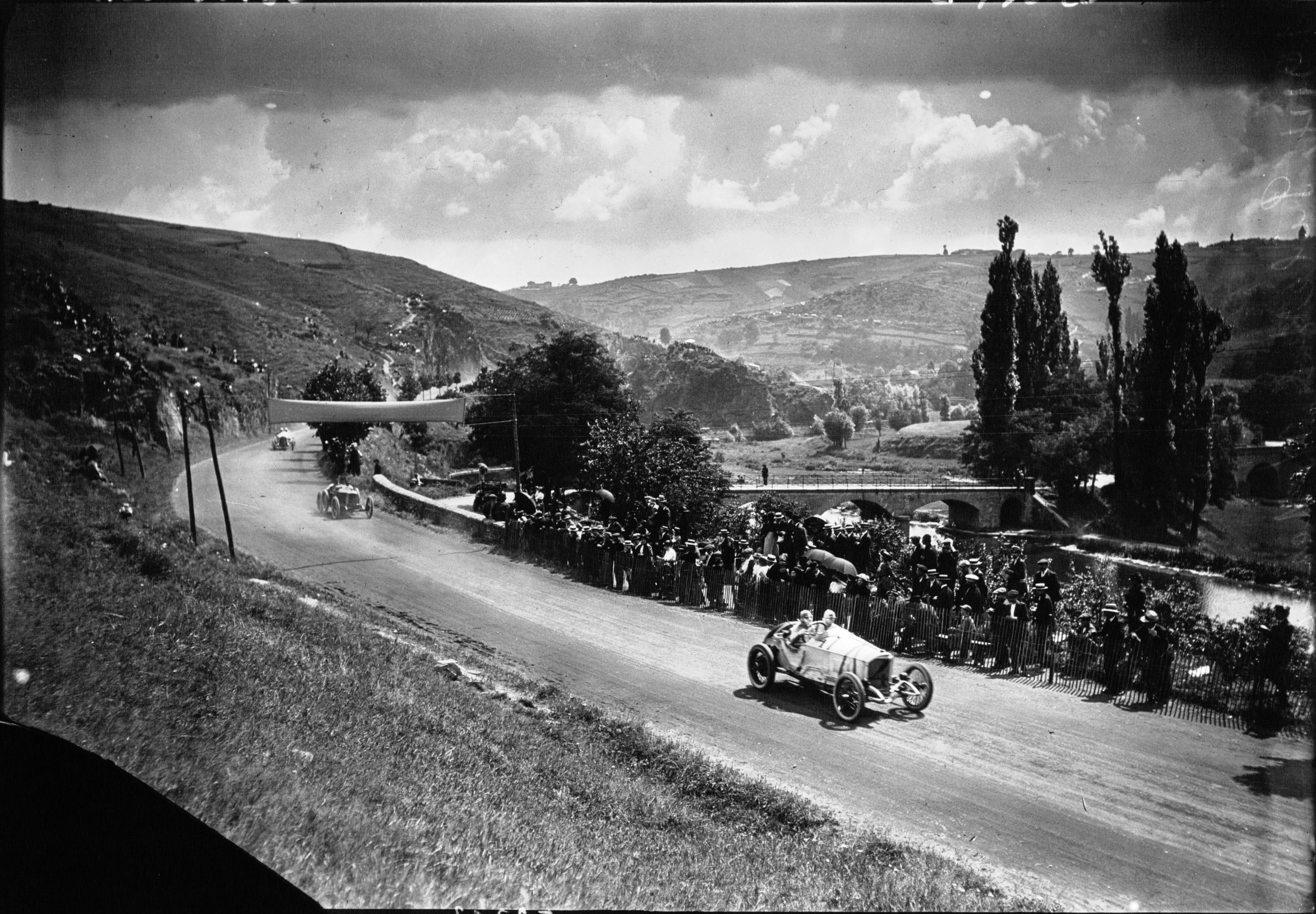 Théodore Pilette at the 1914 French Grand Prix.